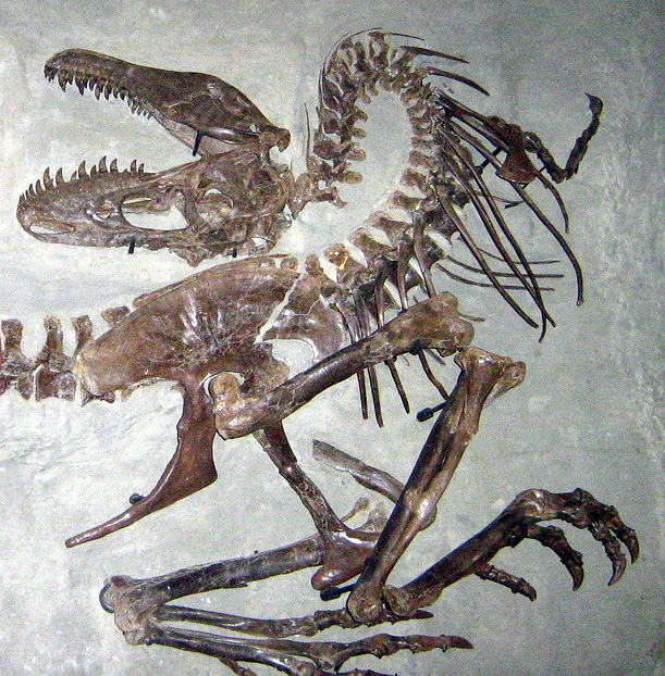 Nearly complete skeleton of a subadult Gorgosaurus libratus (specimen TMP.91.36.500), from the Royal Tyrrell Museum of Palaeontology[1]